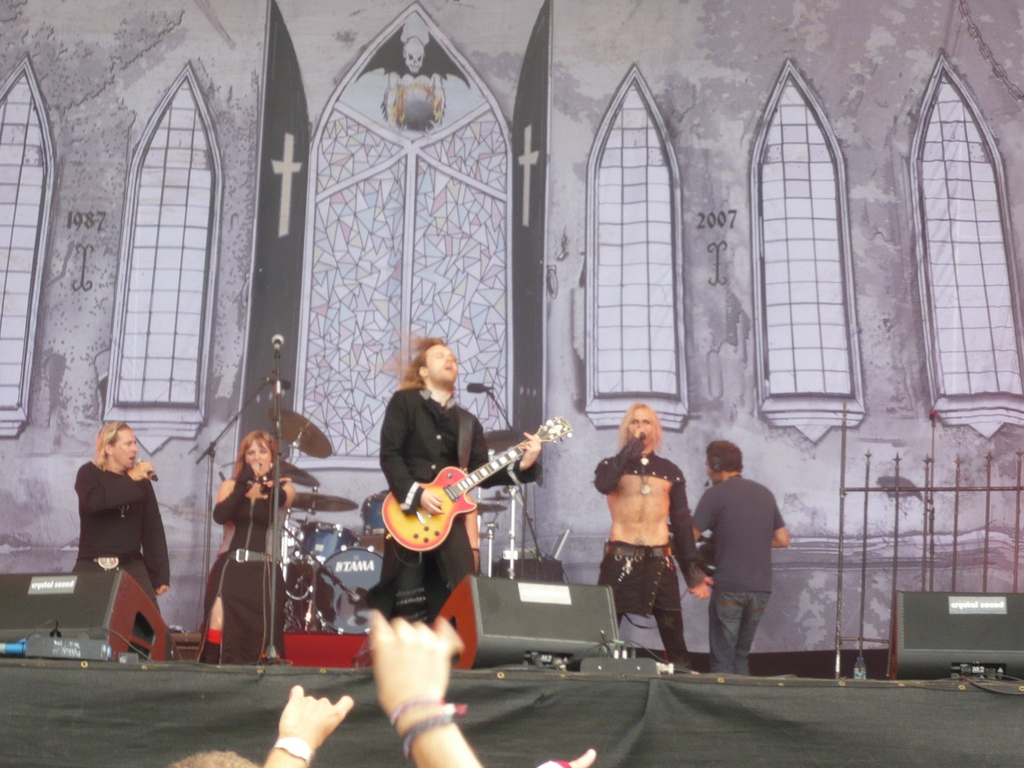 Therion at Wacken Open Air, 2007